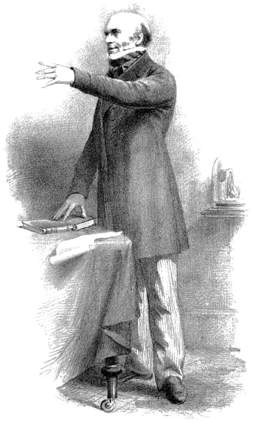 Dr. Robert Knox (1791–1862), Scottish surgeon, anatomist and zoologist